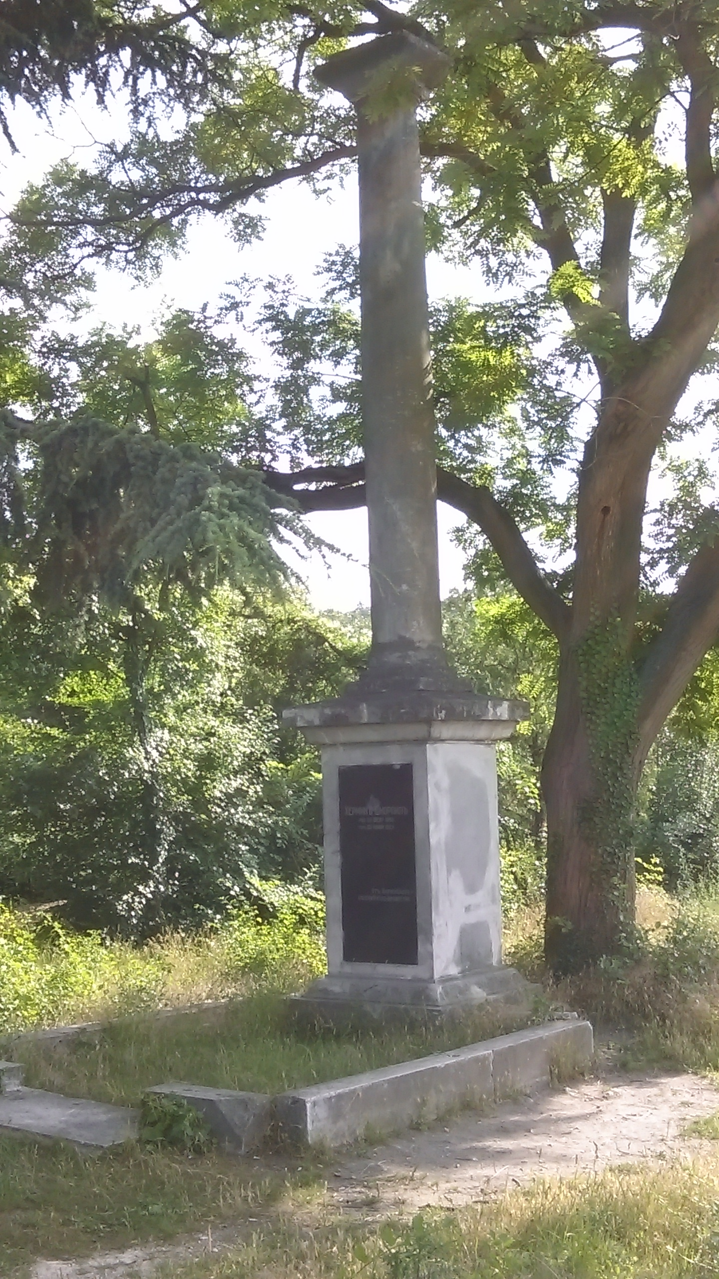 Hermann Škorpil is buried in his own archeological site near Asparouhovo, Varna, Bulgaria